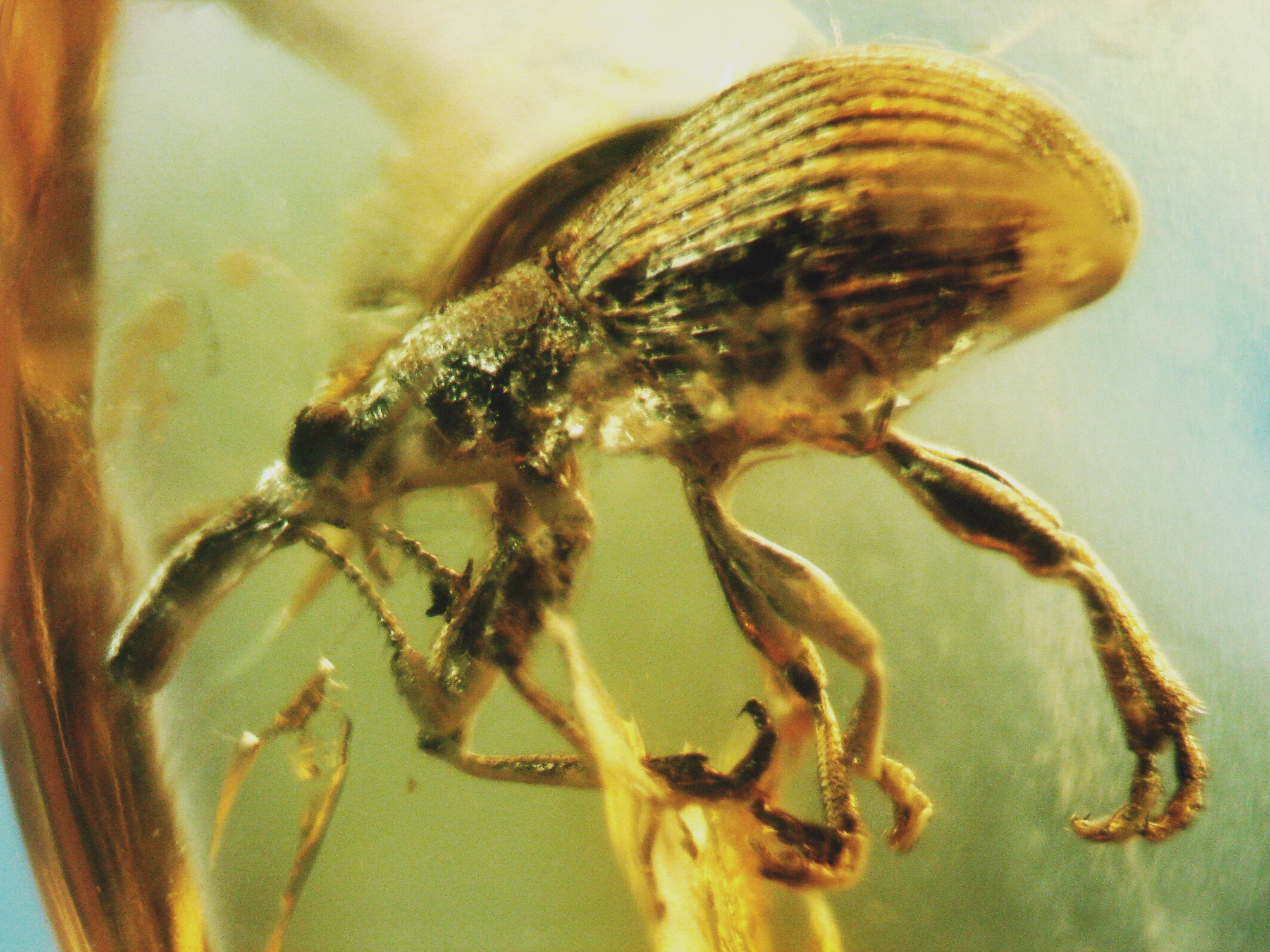 Baltic amber inclusions - 50 million years old - Coleoptera, Brentidae, Apion, ...?I have 3 picture of this beetle on commons